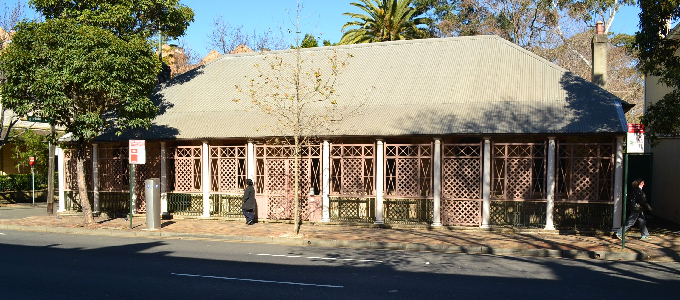 heritage building, surry hills, sydney